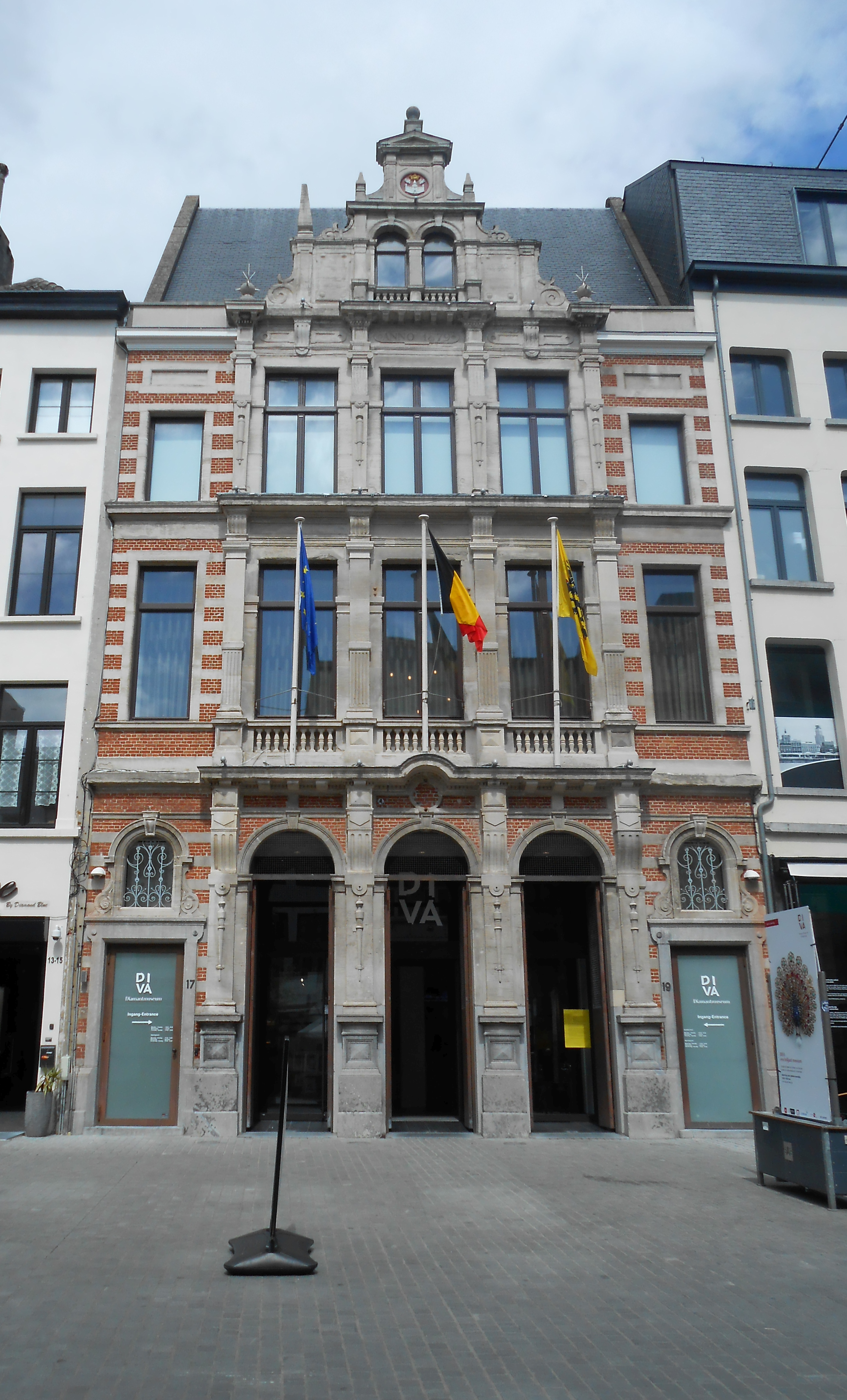 DIVA Diamond museum (front).